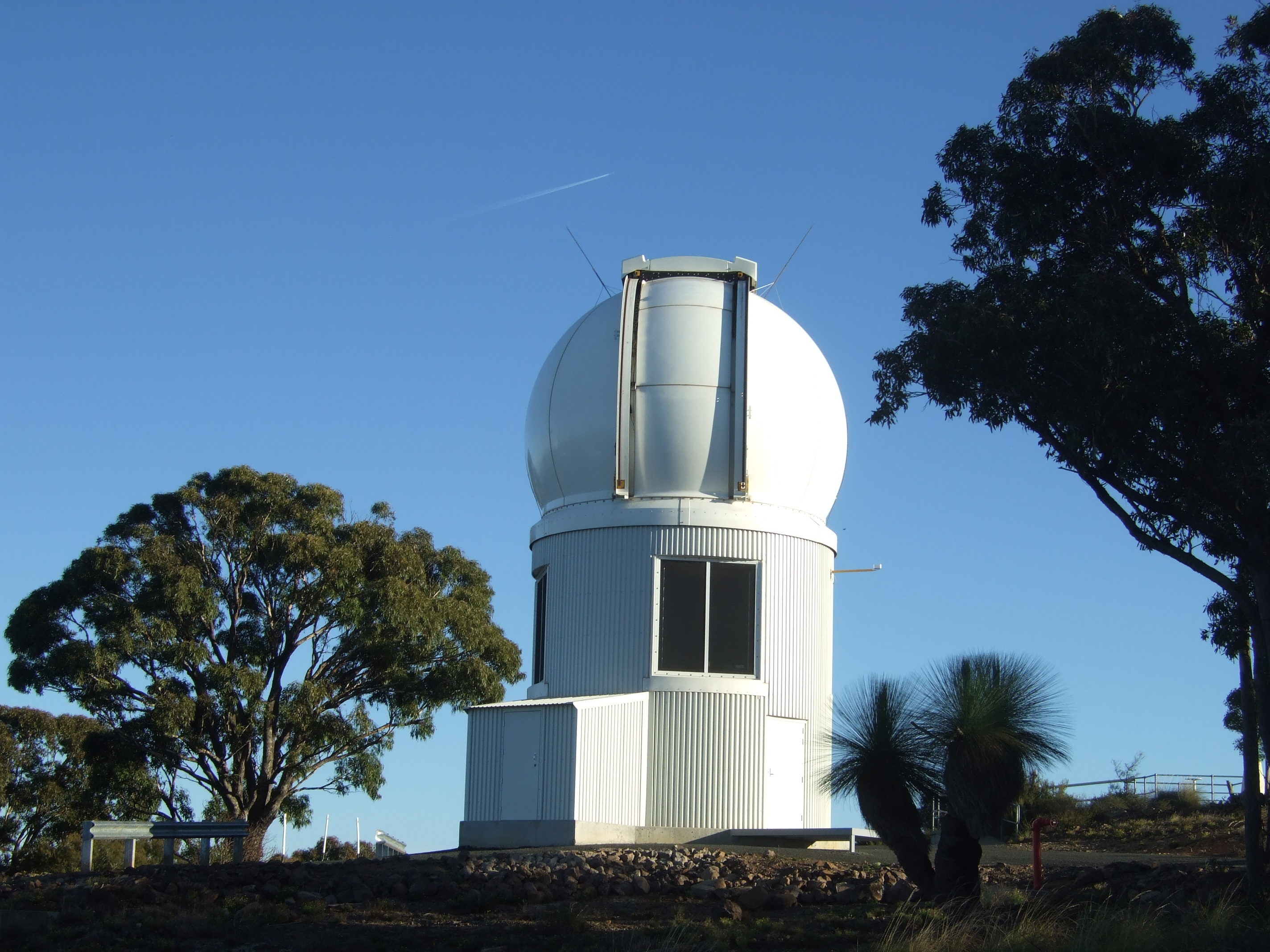 The SkyMapper telescope at Siding Spring Observatory .